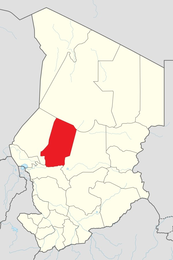 Map of Barh El Gazel region in Chad